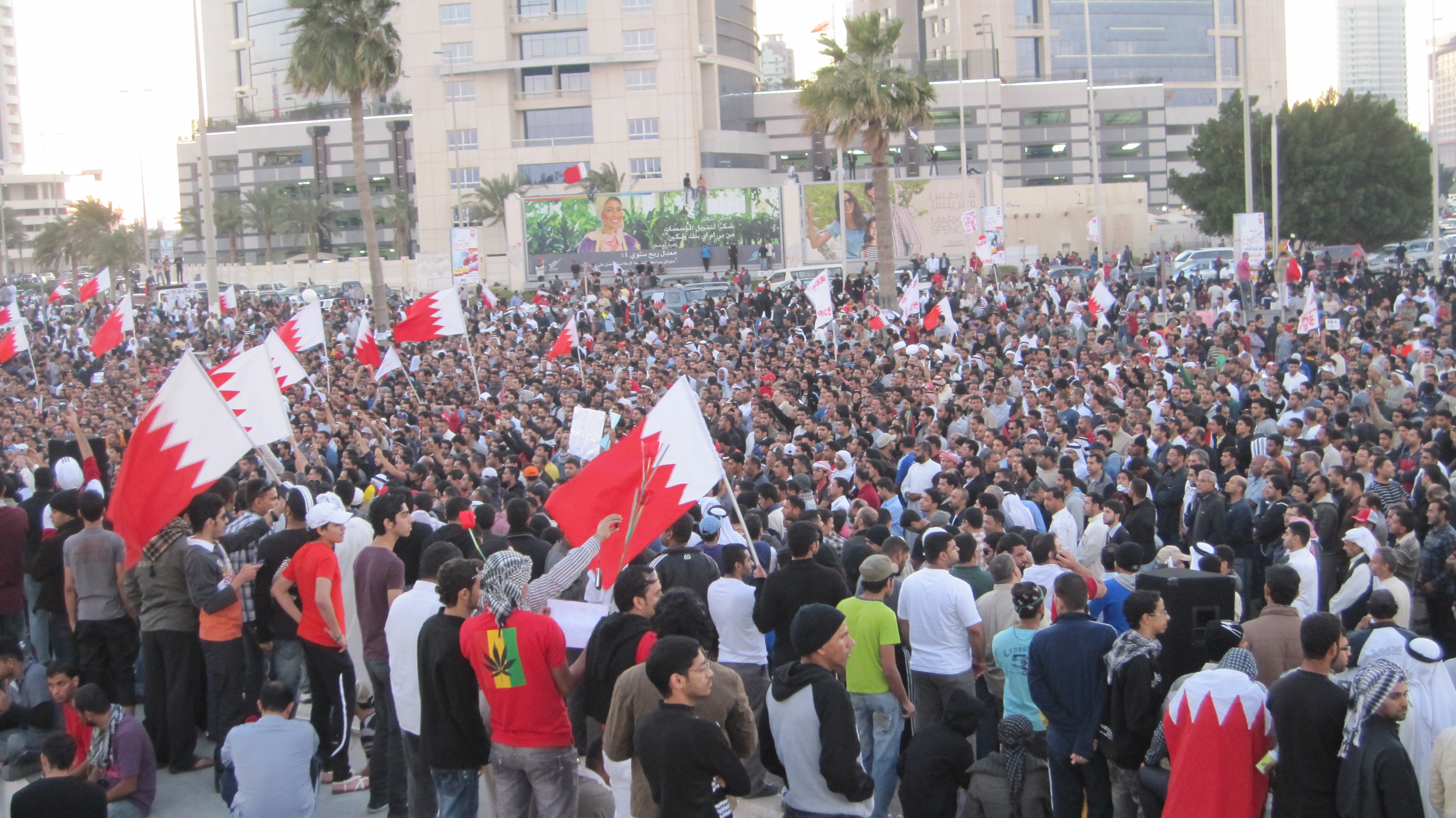 Under the Lulu towers, protesters chanted.